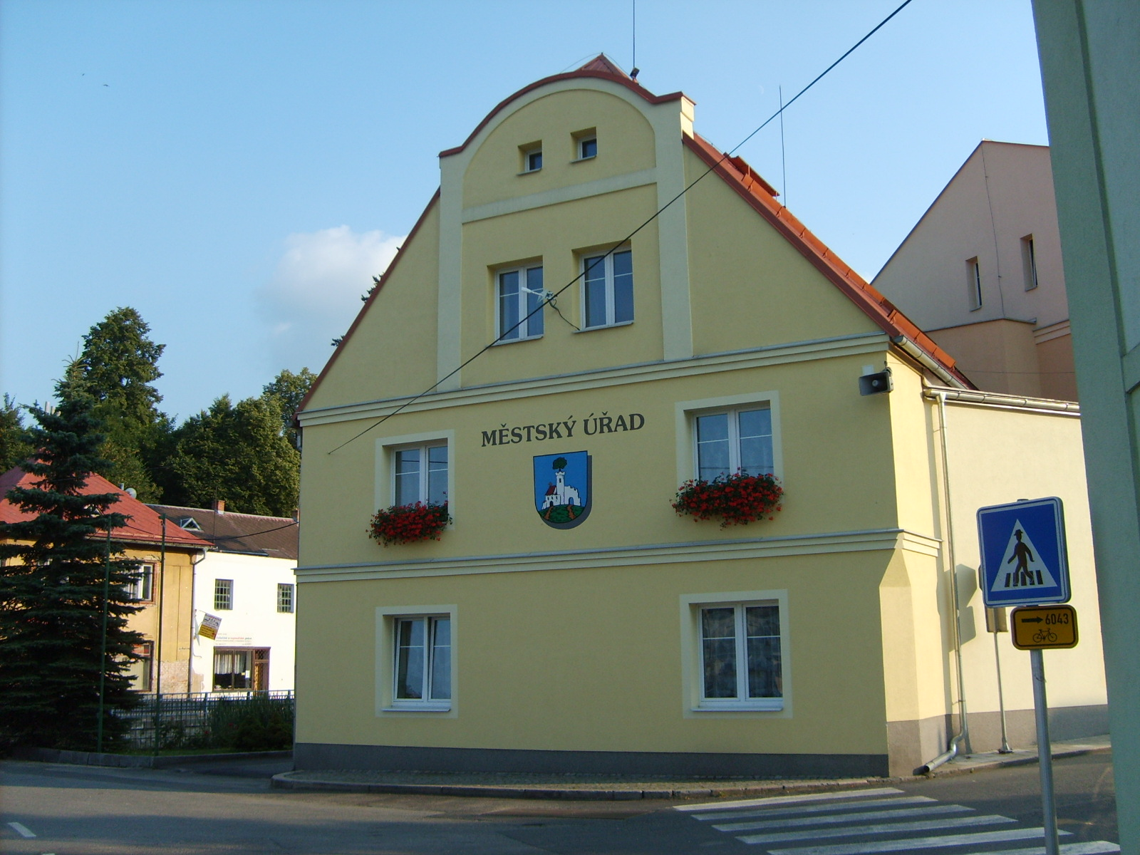 Town hall in Žulová.